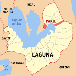 Locator map of Pakil in Laguna, Philippines.